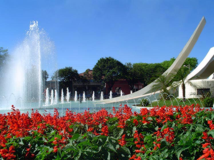 Praça do Imigrante, Cascavel, Paraná, Brazil.